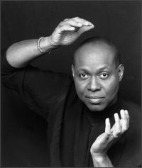 Artist head shot